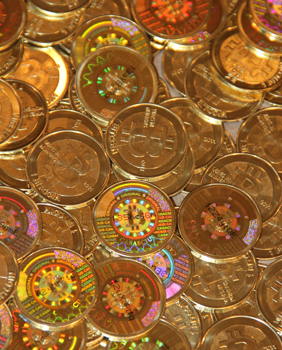 Photos shows pile of 1BTC-denominated brass coins, with the bitcoin logo, production year, the text "Vires In Numeris", with the tamper-evident holographic sticker on the reverse. Printed on the sticker is a portion of the digital coins' public address, for verification of the coin's value. Beneath the holographic sticker lies a private cryptographic key, used to redeem the coin's value, and move the bitcoins contained by the coin into the owner's private wallet. Removing the holographic sticker leaves a hexagon pattern, and indicates to any future owners that the digital Bitcoin originally loaded on the coin have likely been removed.